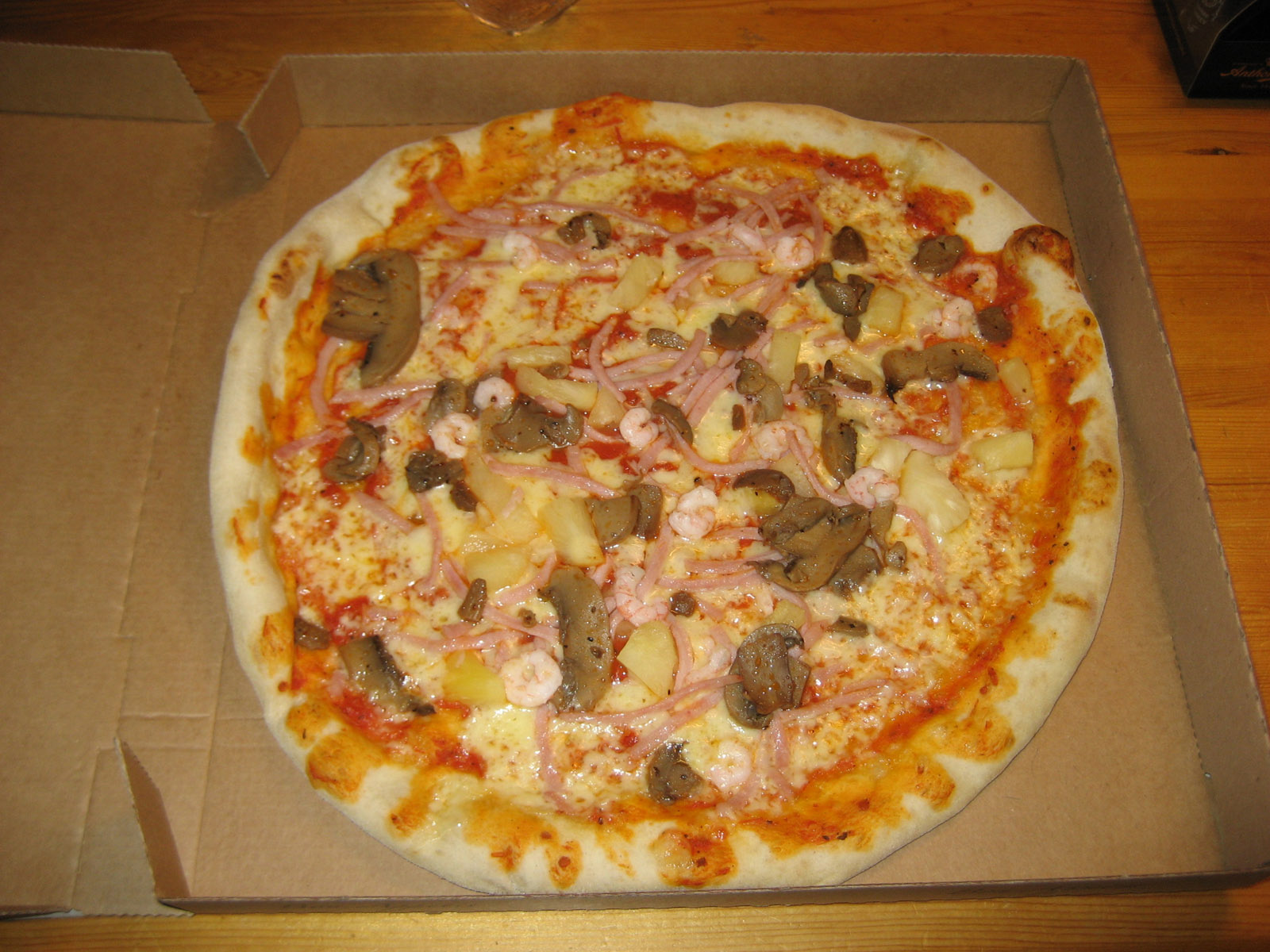 A pizza from Sweden, named "Bella Vista".